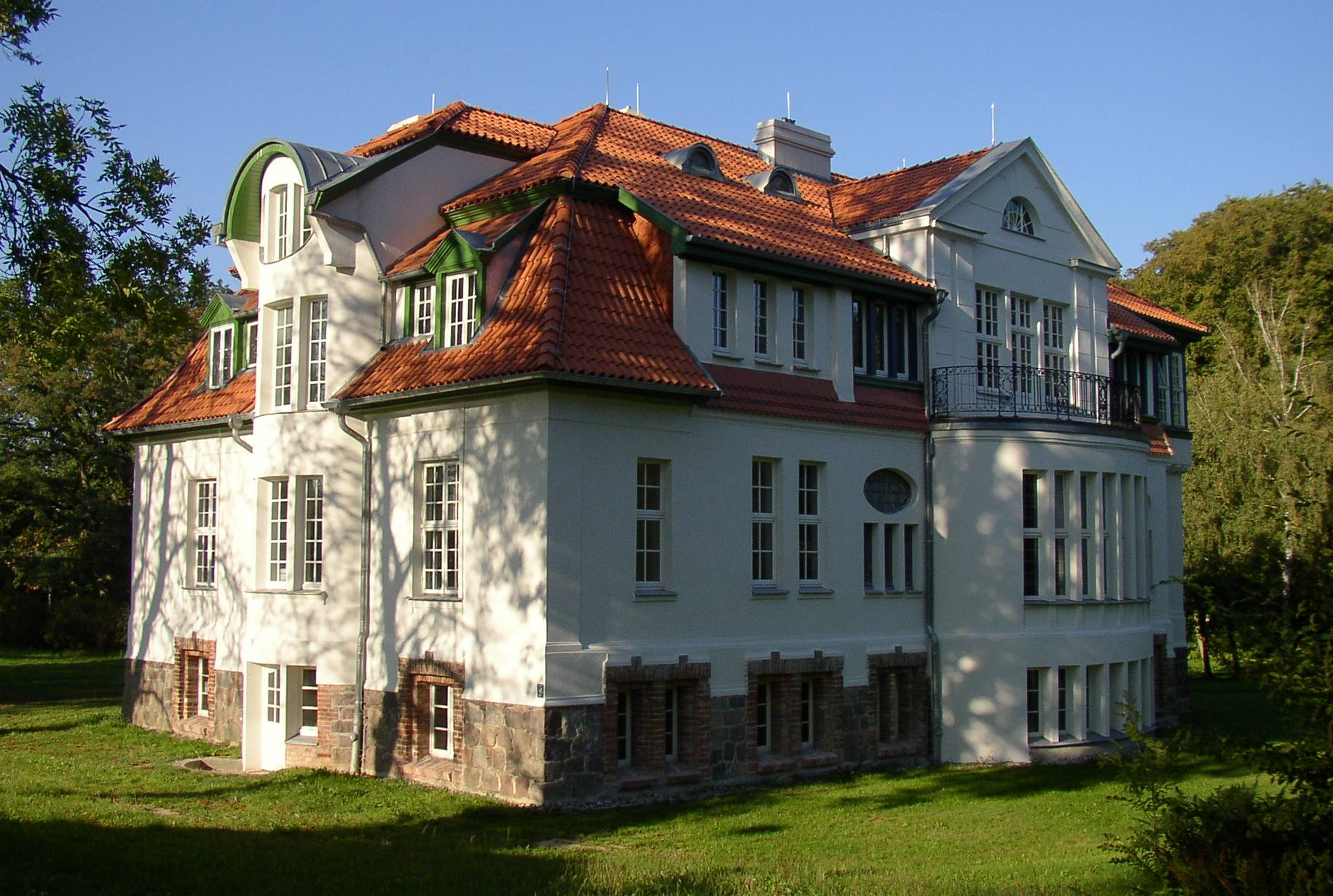 Stubbendorf manor in Mecklenburg-Western Pomerania, Germany